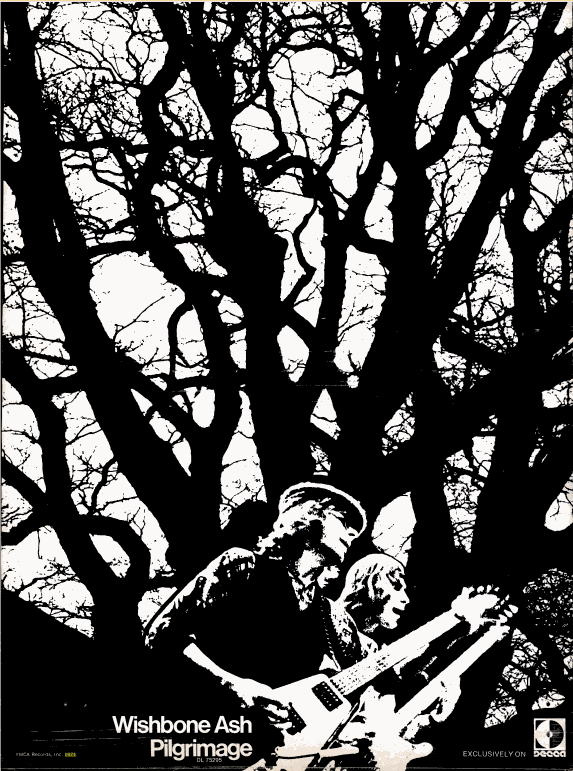 Wishbone Ash - Pilgrimage, 1971